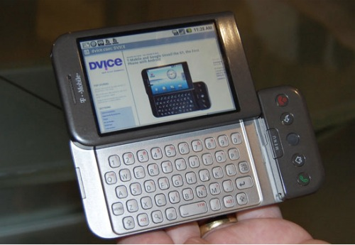 T-Mobile's G1 phone (HTC Dream), using Google's Android software